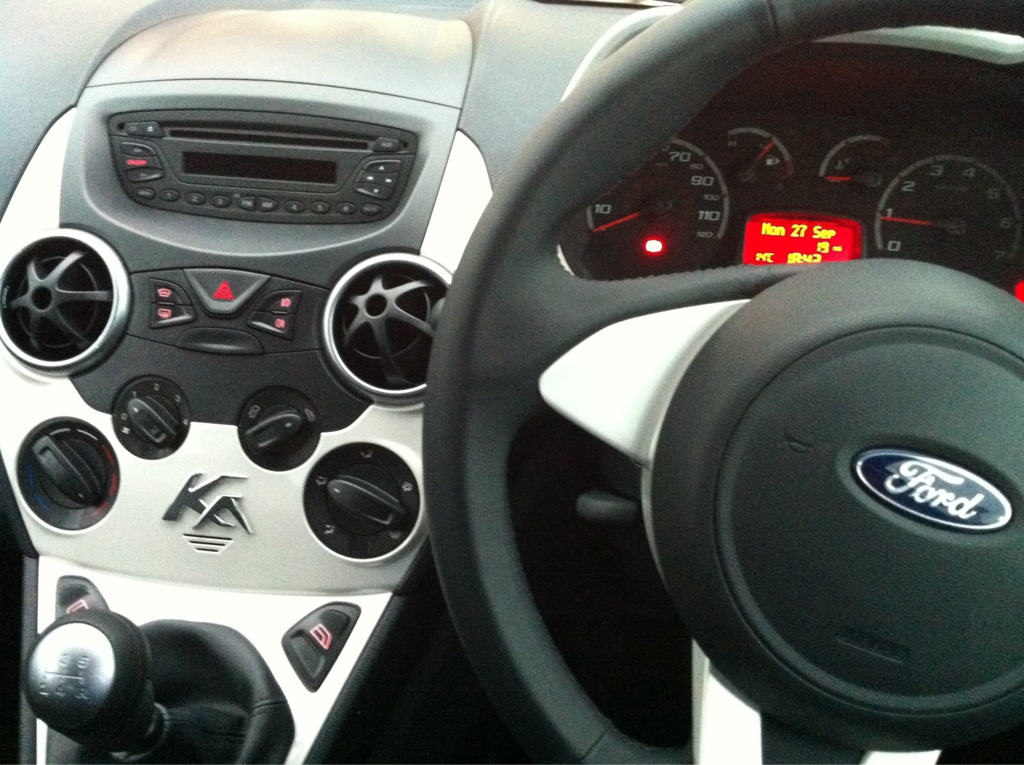 Posted via email from roblawton's post box